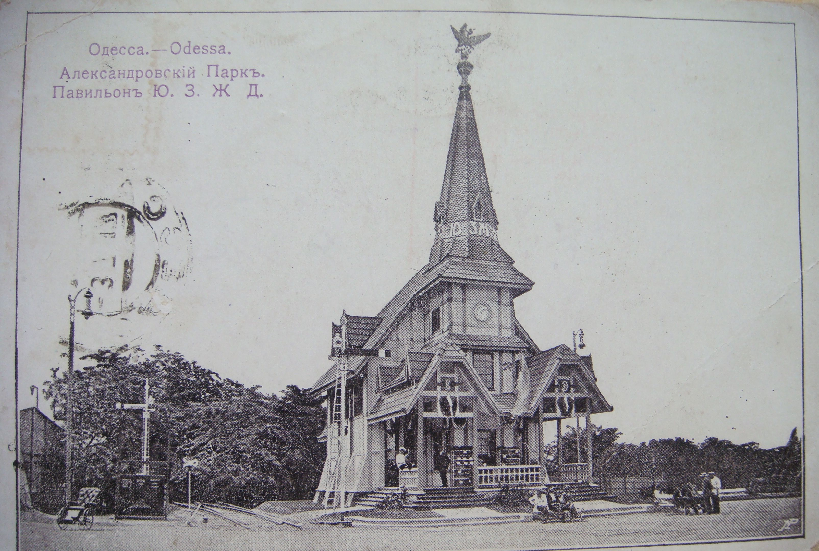 Old Carte Postale (Open Letter) issued in 1910 showed pavilion of South-Western Railroads at Odessa Exposition